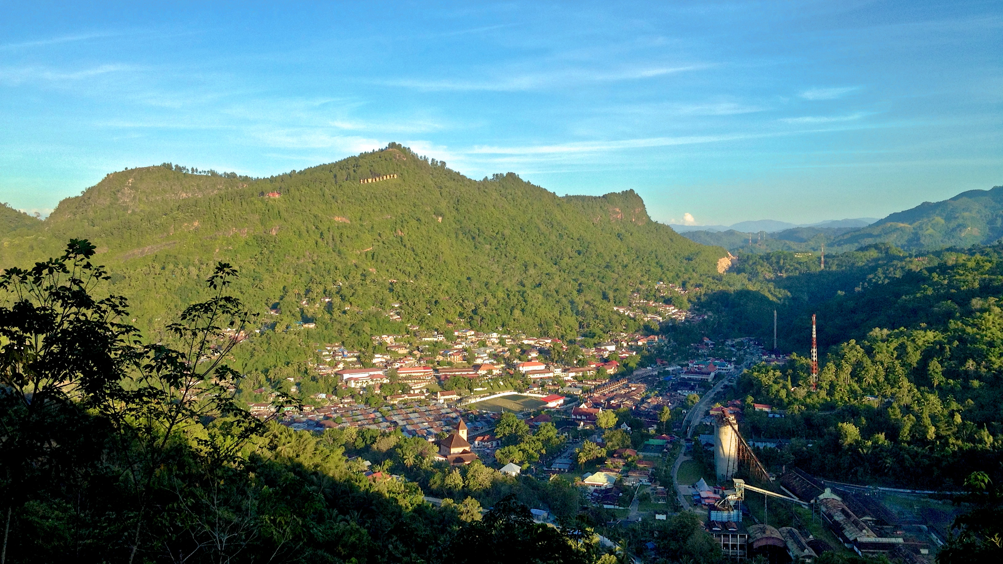 Puncak Cemara Sawahlunto View